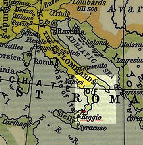 Map of the Byzantine Theme of Calabria between 533 and 600